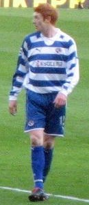 English football (soccer) player Dave Kitson